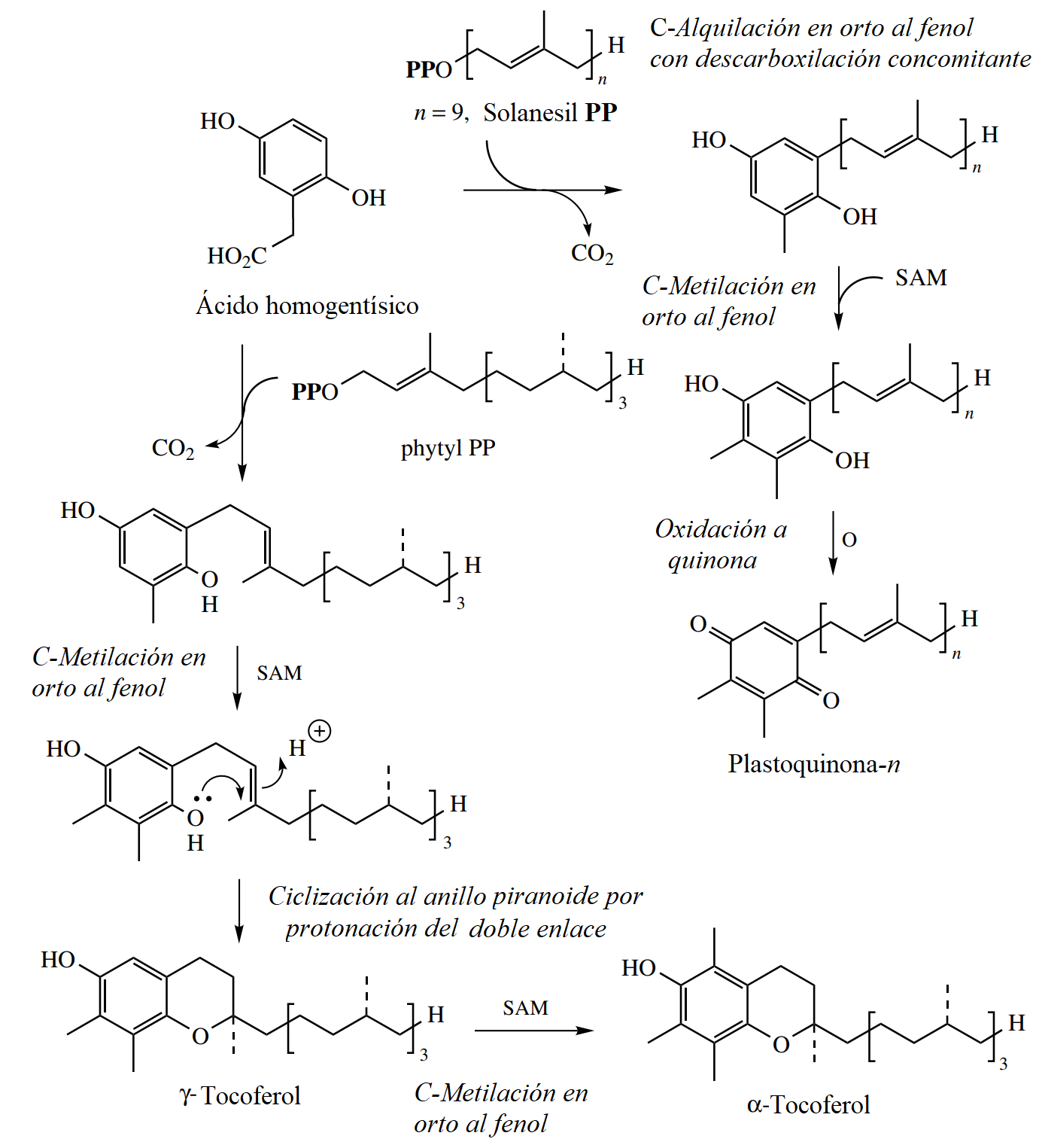 Required for shikimic acid pathway page in spanish